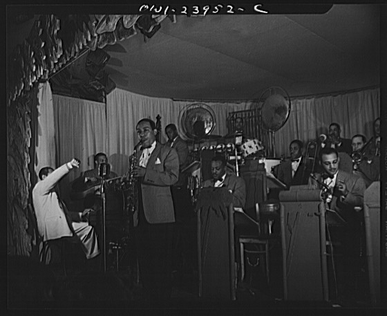 Johnny Hodges, rated as the world's best alto saxaphone player, plays Duke Ellington's "Don't Get Around Much Anymore"